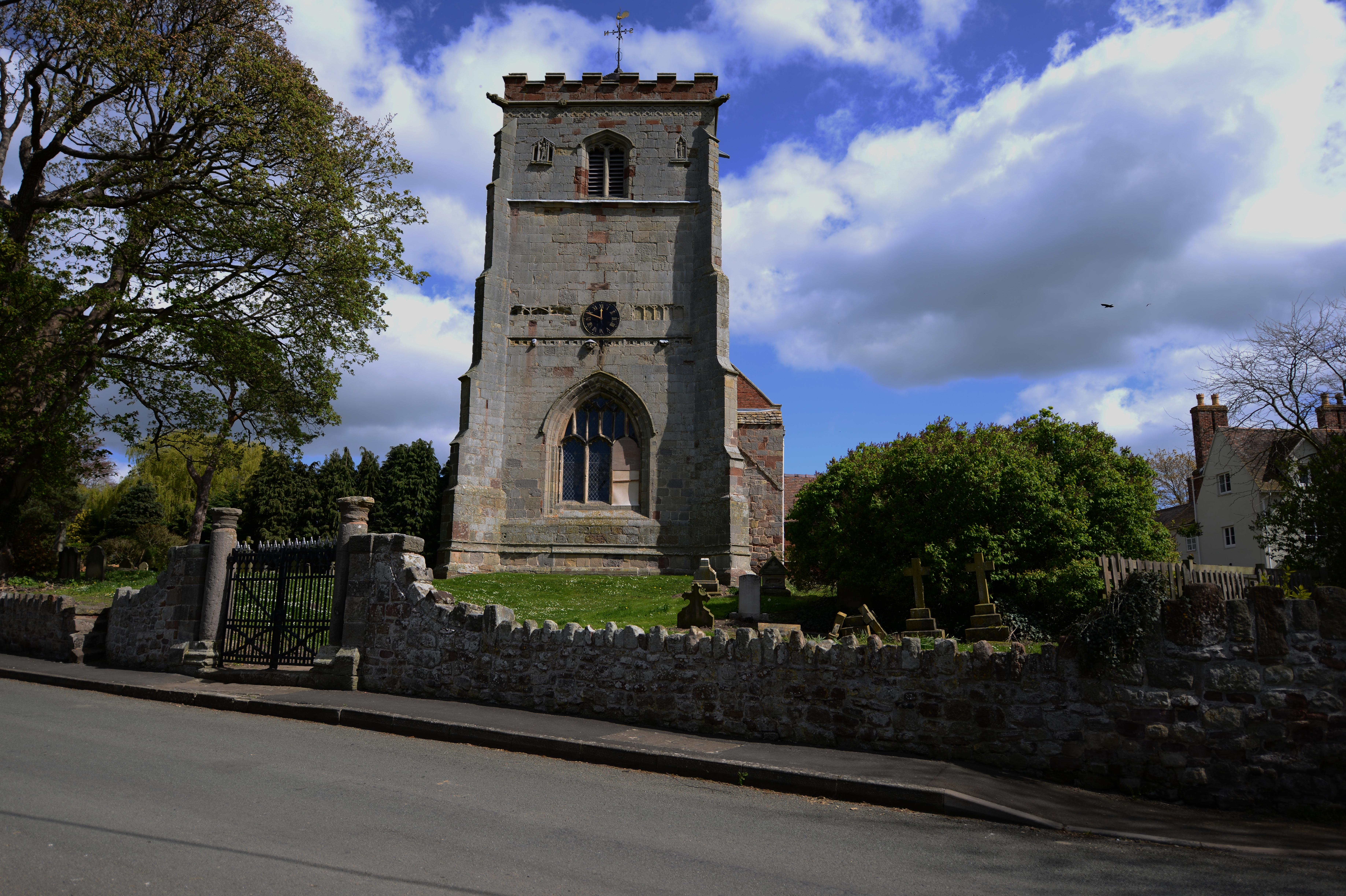 CHURCH OF ST ANDREW Wikidata has entry Q7592382 with data related to this building.